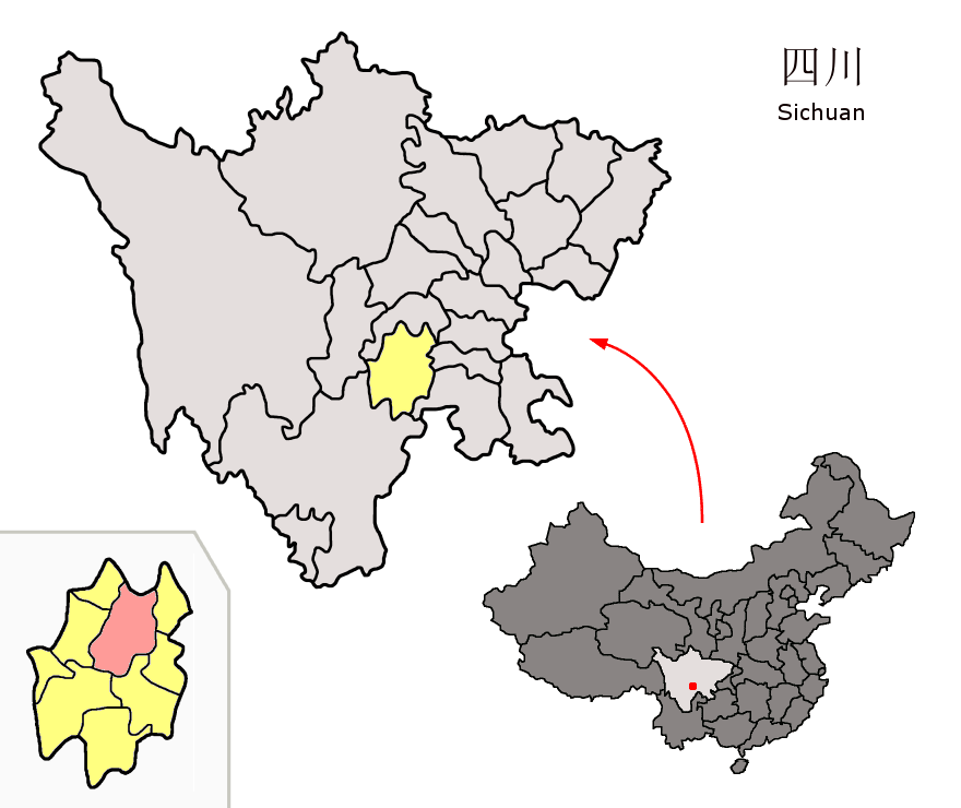 Location of Leshan City 3 contiguous (Shawan, Shizhong, and Wutongqiao) Districts (pink) and Leshan Prefecture (yellow) within Sichuan province of China Map drawn in september 2007 using various sources, mainly : Sichuan province administrative regions GIS data: 1:1M, County level, 1990 Sichuan Counties map from Map of Yunnan & Sichuan Area from